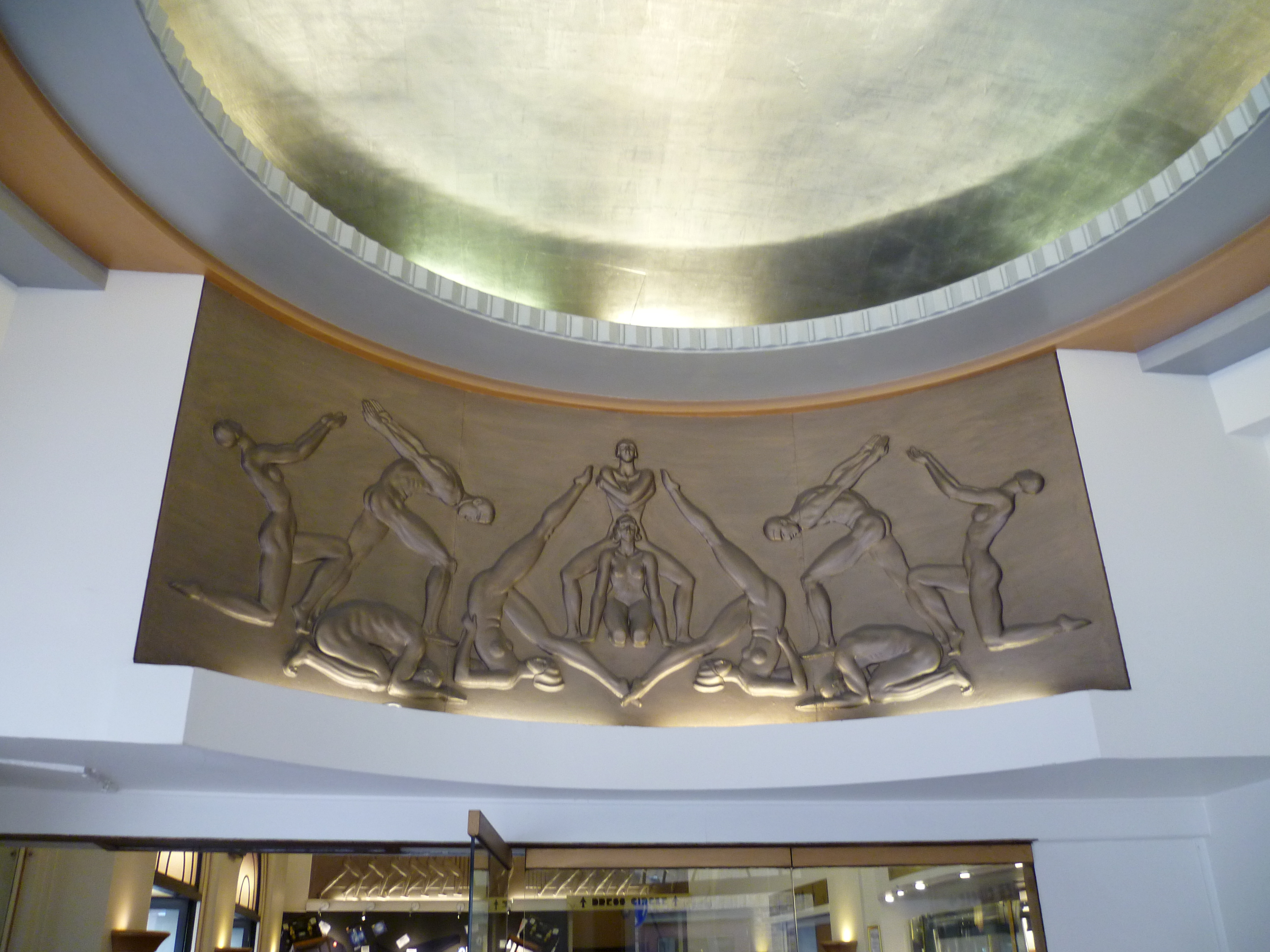 Cambridge Theatre, London, 28 July 2016